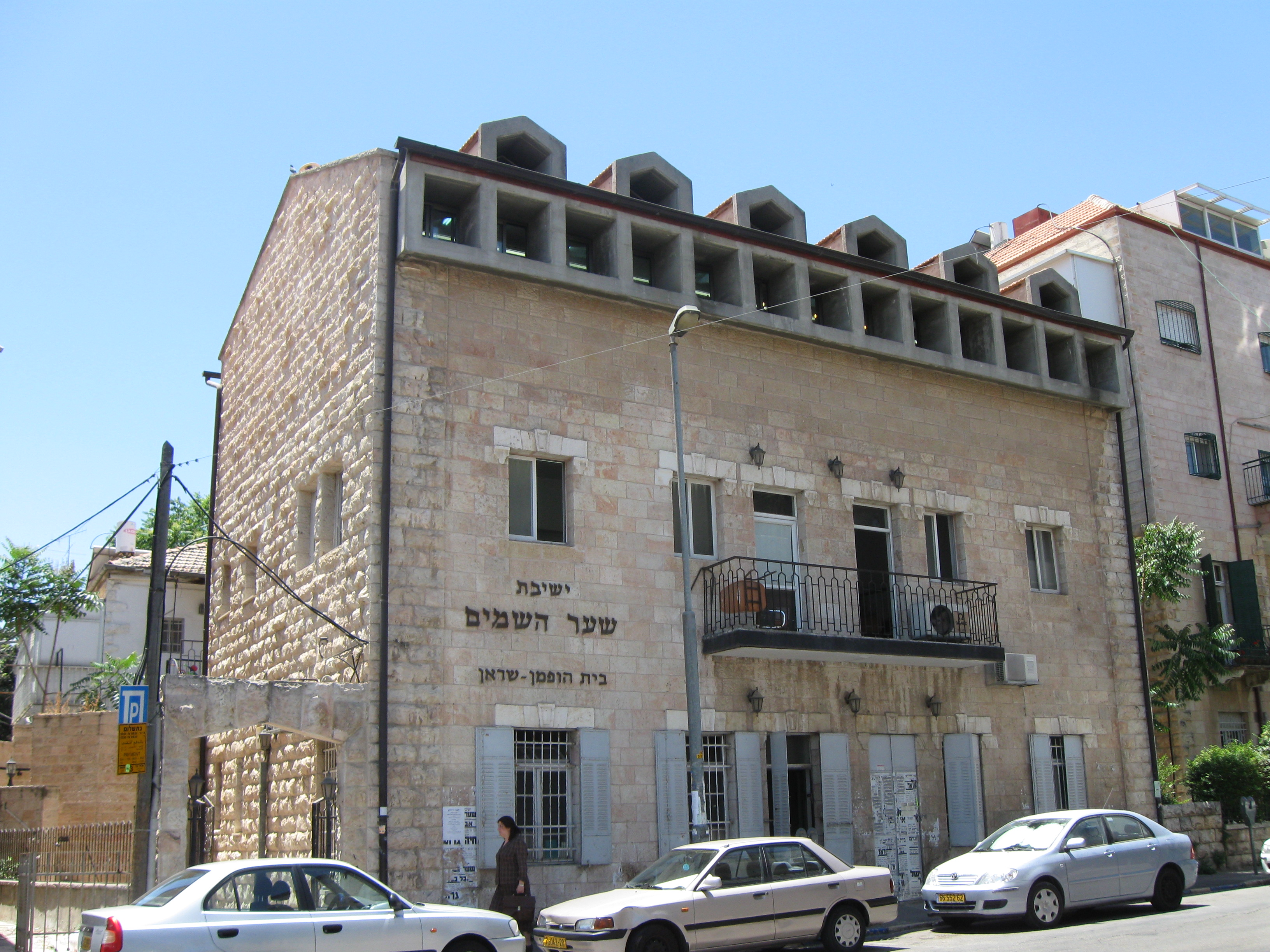 Shaar Hashamayim Yeshiva, 71 Rashi St., Jerusalem